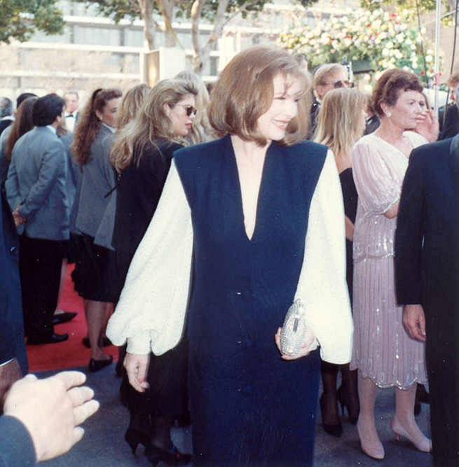 Dianne Wiest on the red carpet at the 62nd Annual Academy Awards, 3/26/90